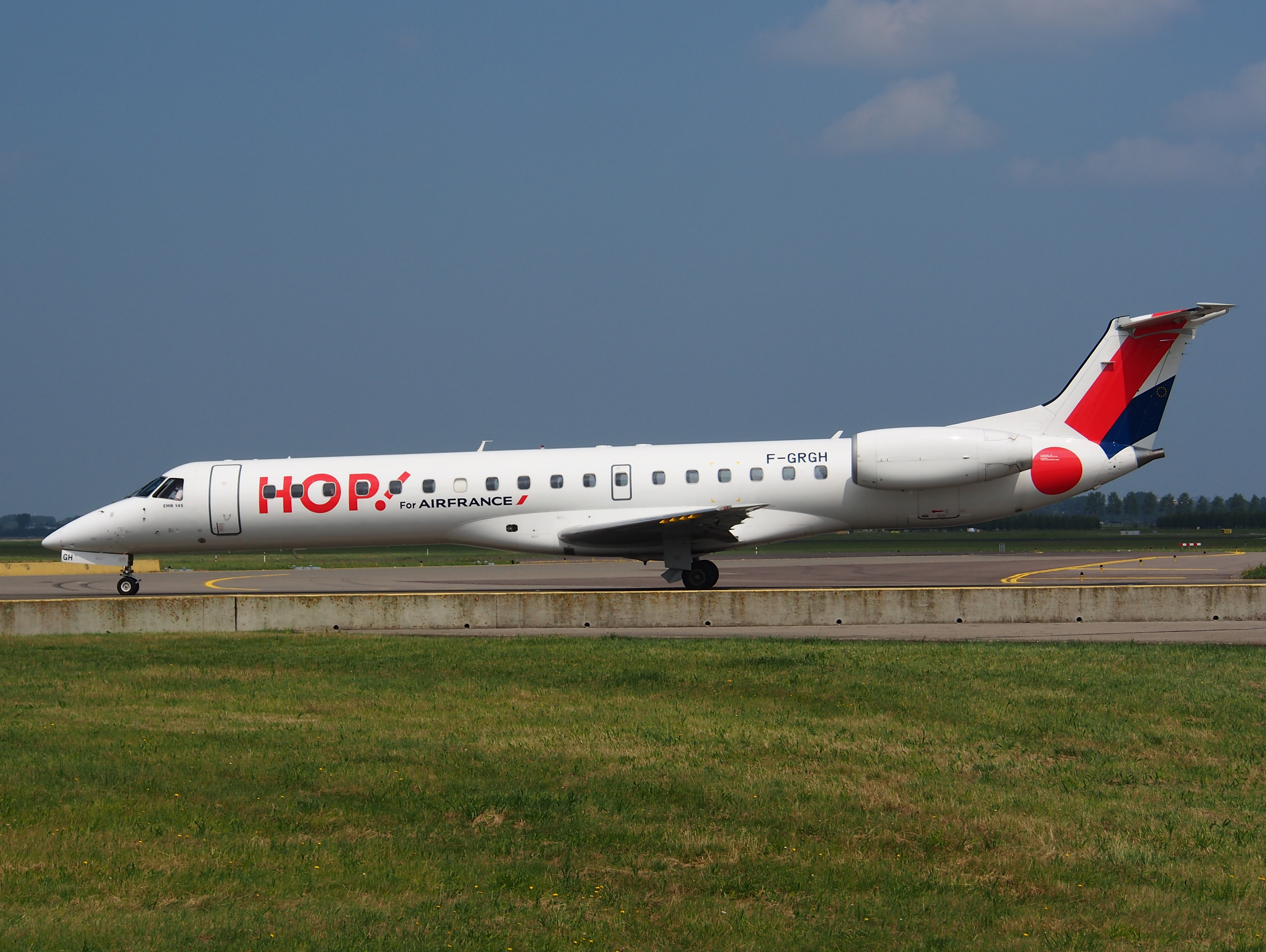 Photographed at Amsterdam airport Schiphol, the Netherlands. OLYMPUS DIGITAL CAMERA